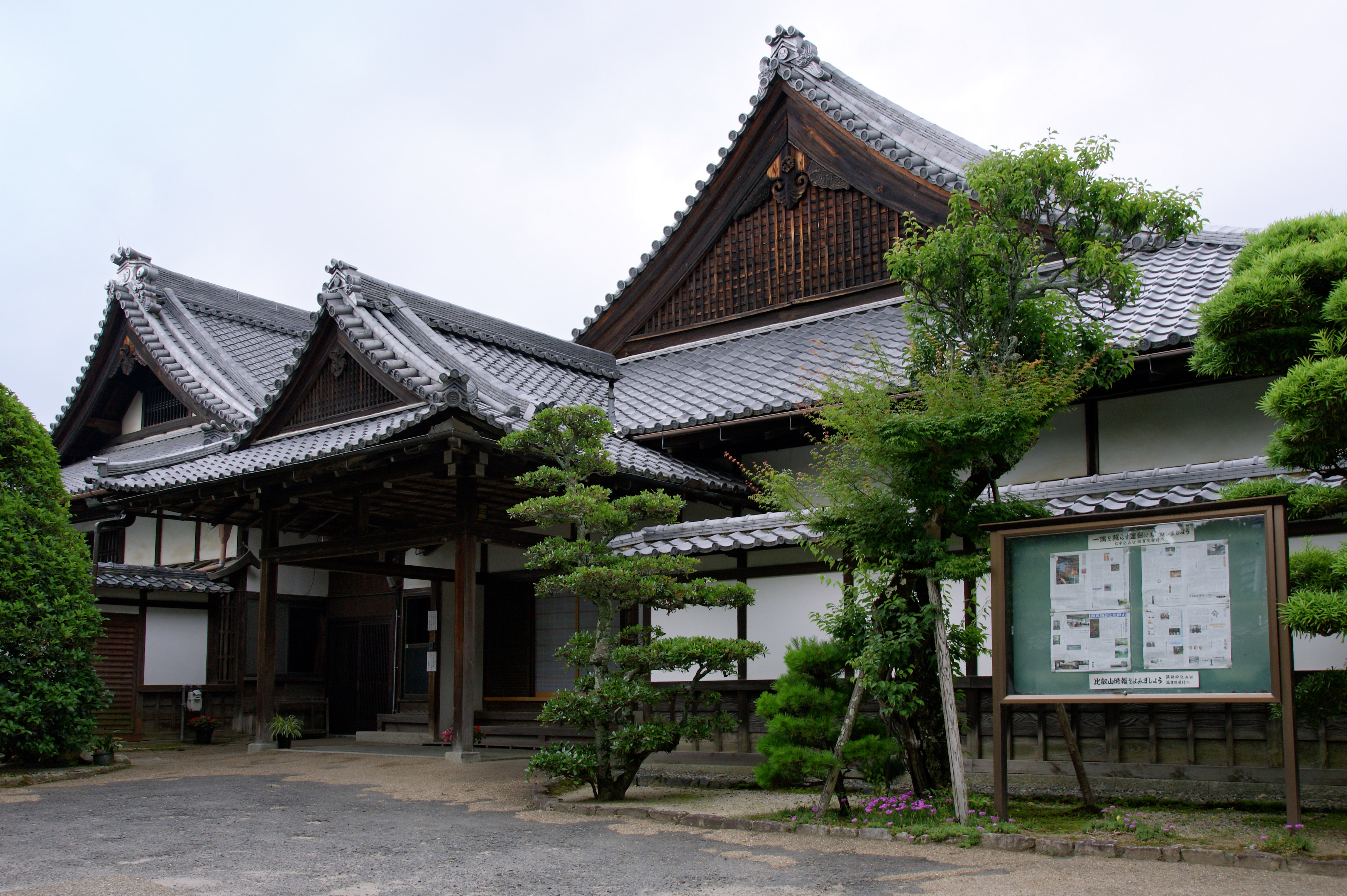 Shigain-monzeki in Sakamoto, Otsu, Shiga prefecture, Japan